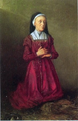 Margaret Ball (1515-1584)